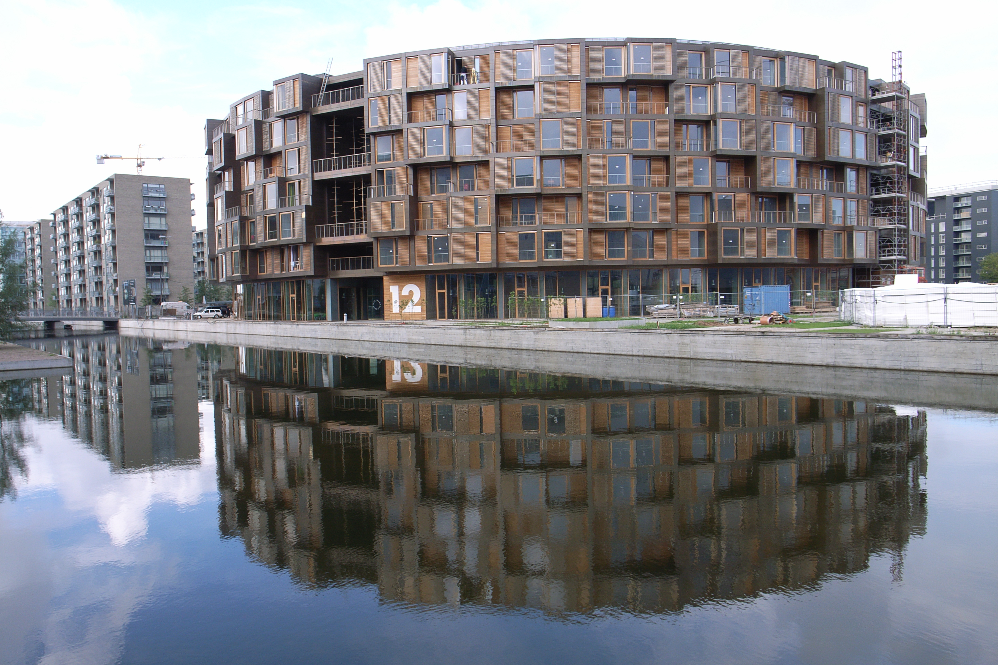 Tietgenkollegiet student housing in the Ørestad district of Copenhagen, Denmark. Designed by Danish architects Lundgaard & Tranberg Camera: Ricoh GR Digital License on Flickr (2010-12-29): CC-BY-SA-2.0 Flickr tags: Copenhagen, Tietgens Kollegie, geotagged, geo:lon=12.590954, geo:lat=55.661141